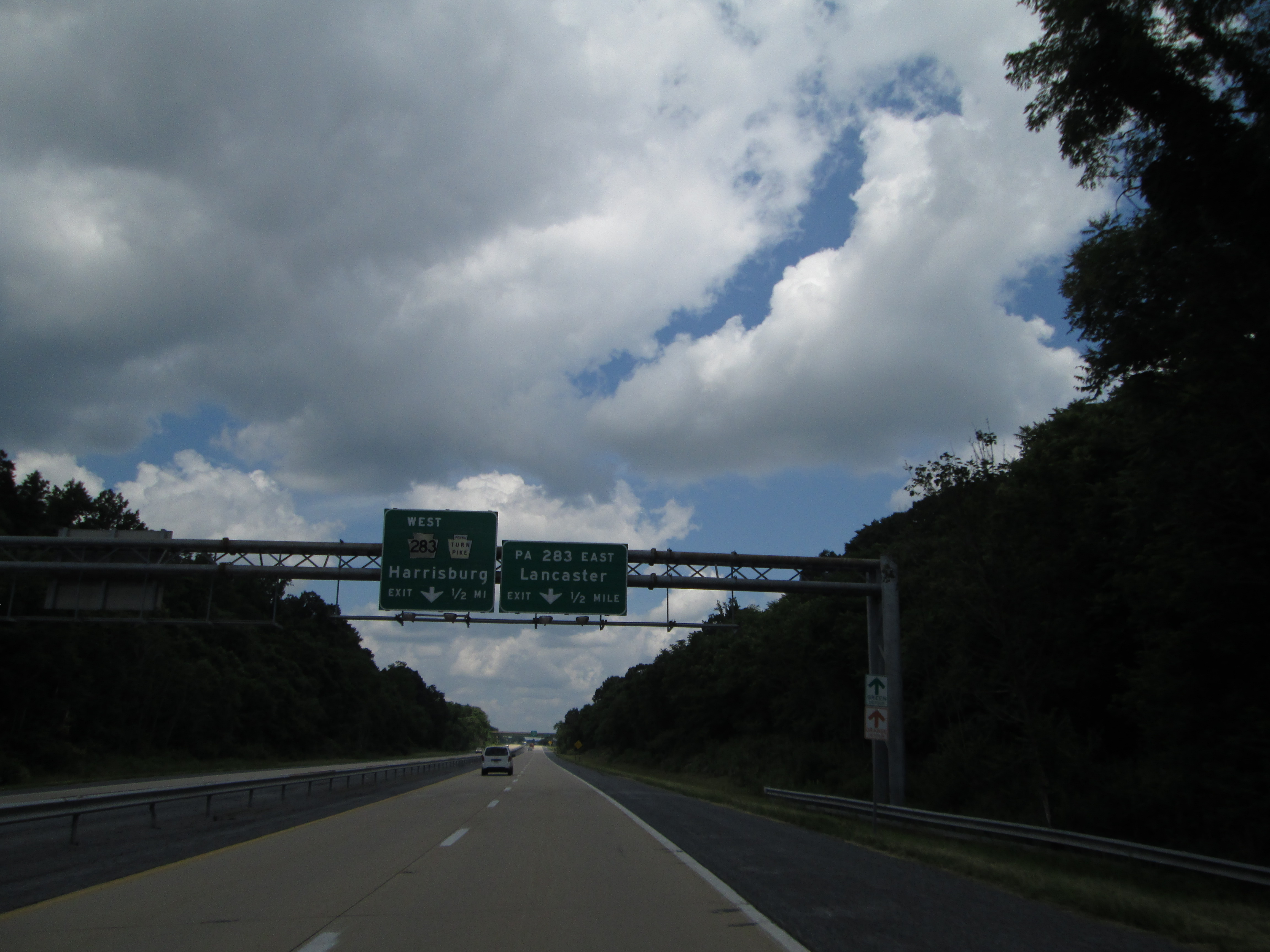 Airport Connector northbound approaching the interchange with State Route 283 in Harrisburg, Pennsylvania